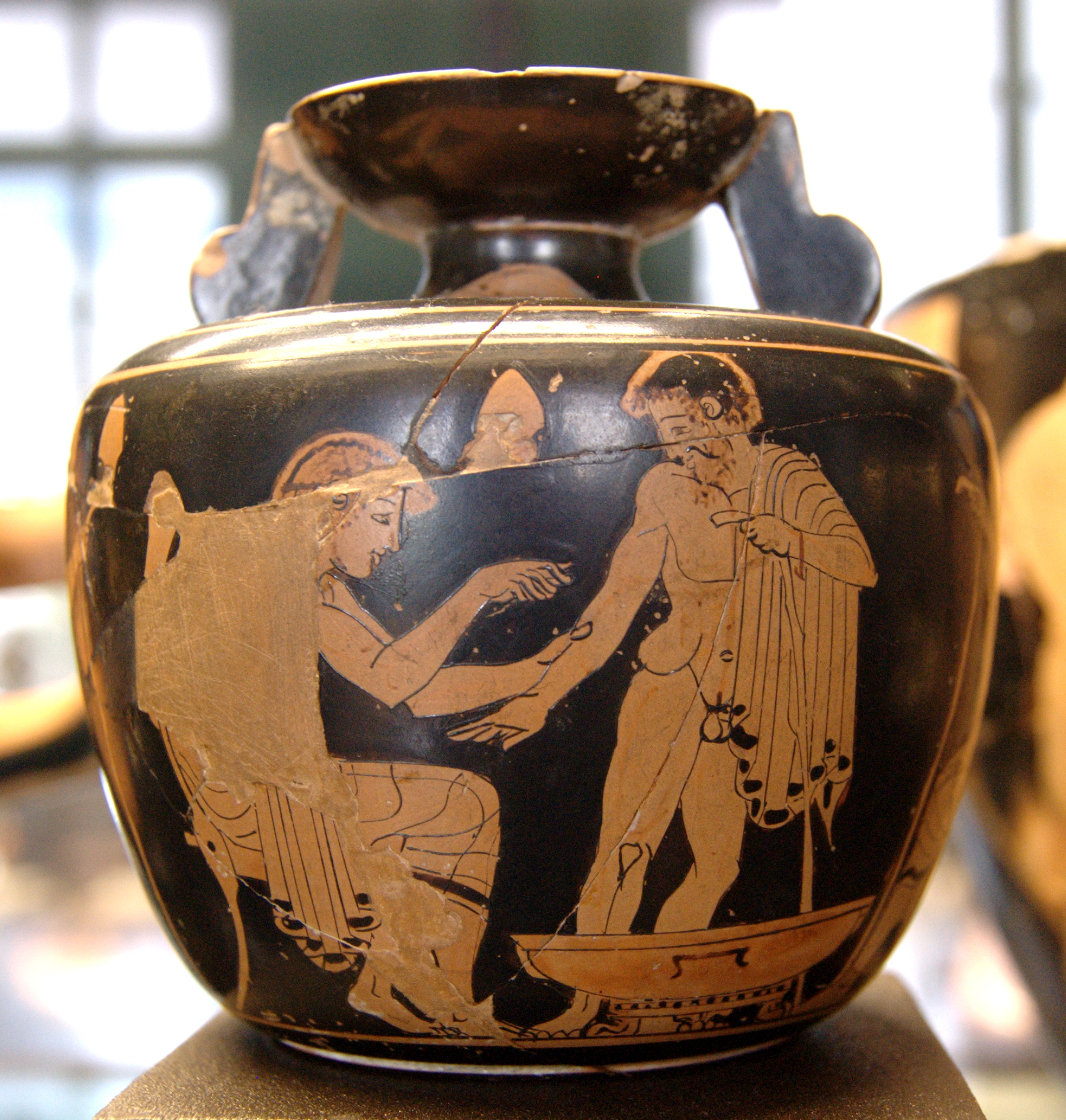 Physician treating a patient. Red-figure Attic aryballos, ca. 480–470 BC.